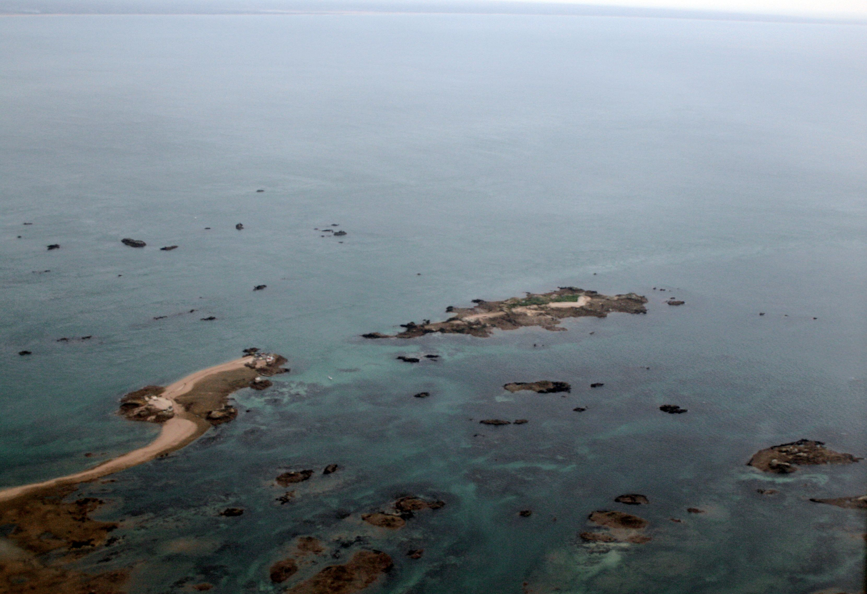 Aerial view of Les Ecréhous